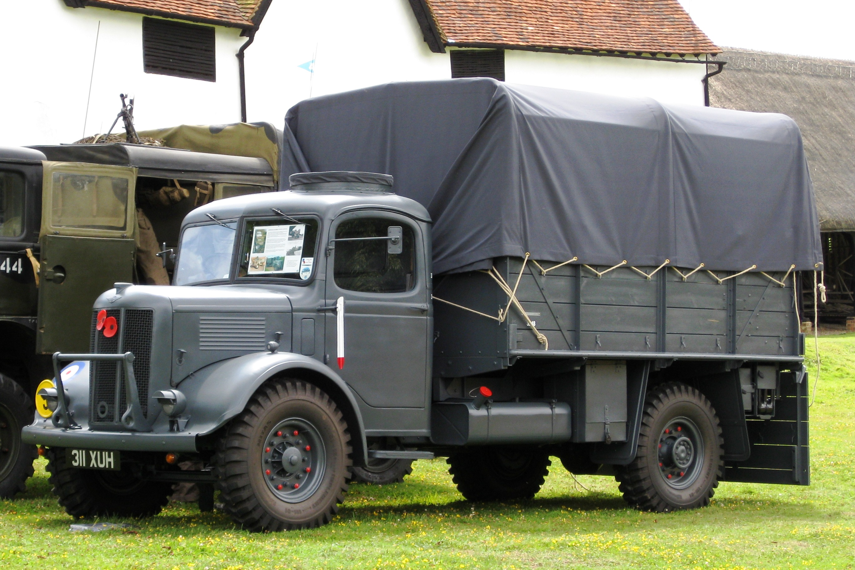 Austin K2 truck fitted out as a "General Service Lorry" for UK military use. Because of the way the economy was focused, surviving Austin commercials from this period tend now to be conserved / restored as military adaptations, although many continued to be used in civil life after the war ended in 1945.